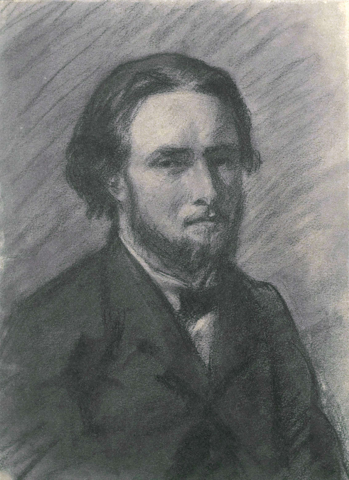 Auguste Poulet-Malassis 28.5 x 21 cm